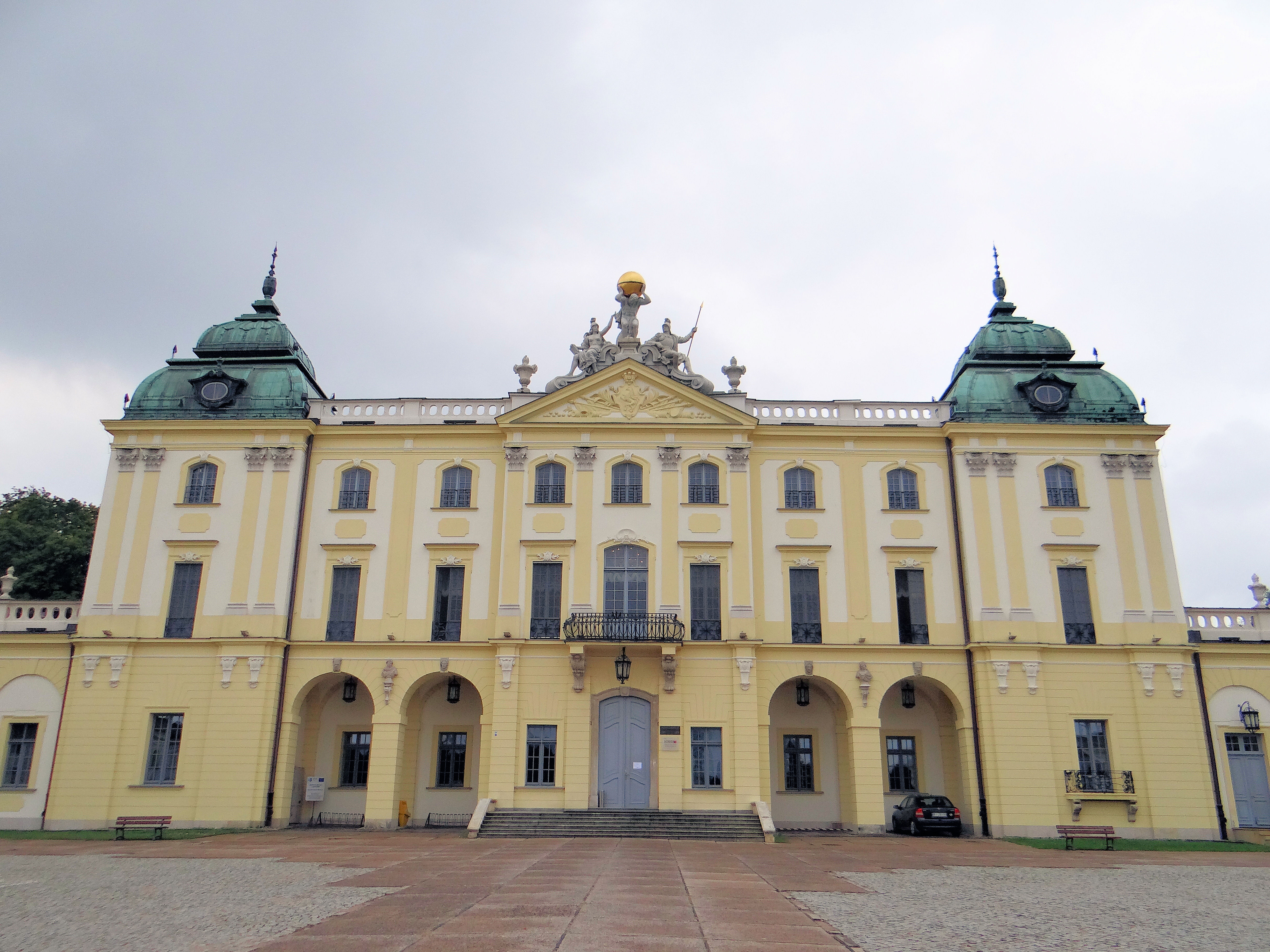 Branicki Palace in Białystok